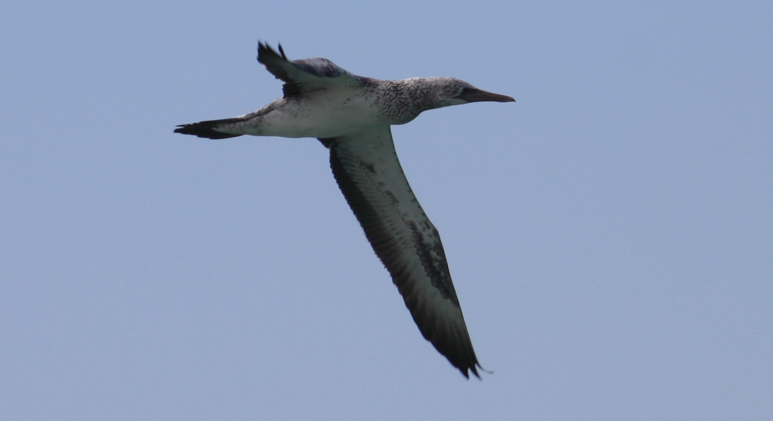 Currumbin Beach, Queensland - Australia, April 18 2014.